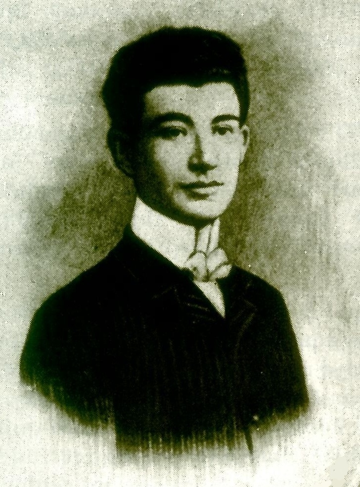 Armenian poet Misak Metsarents